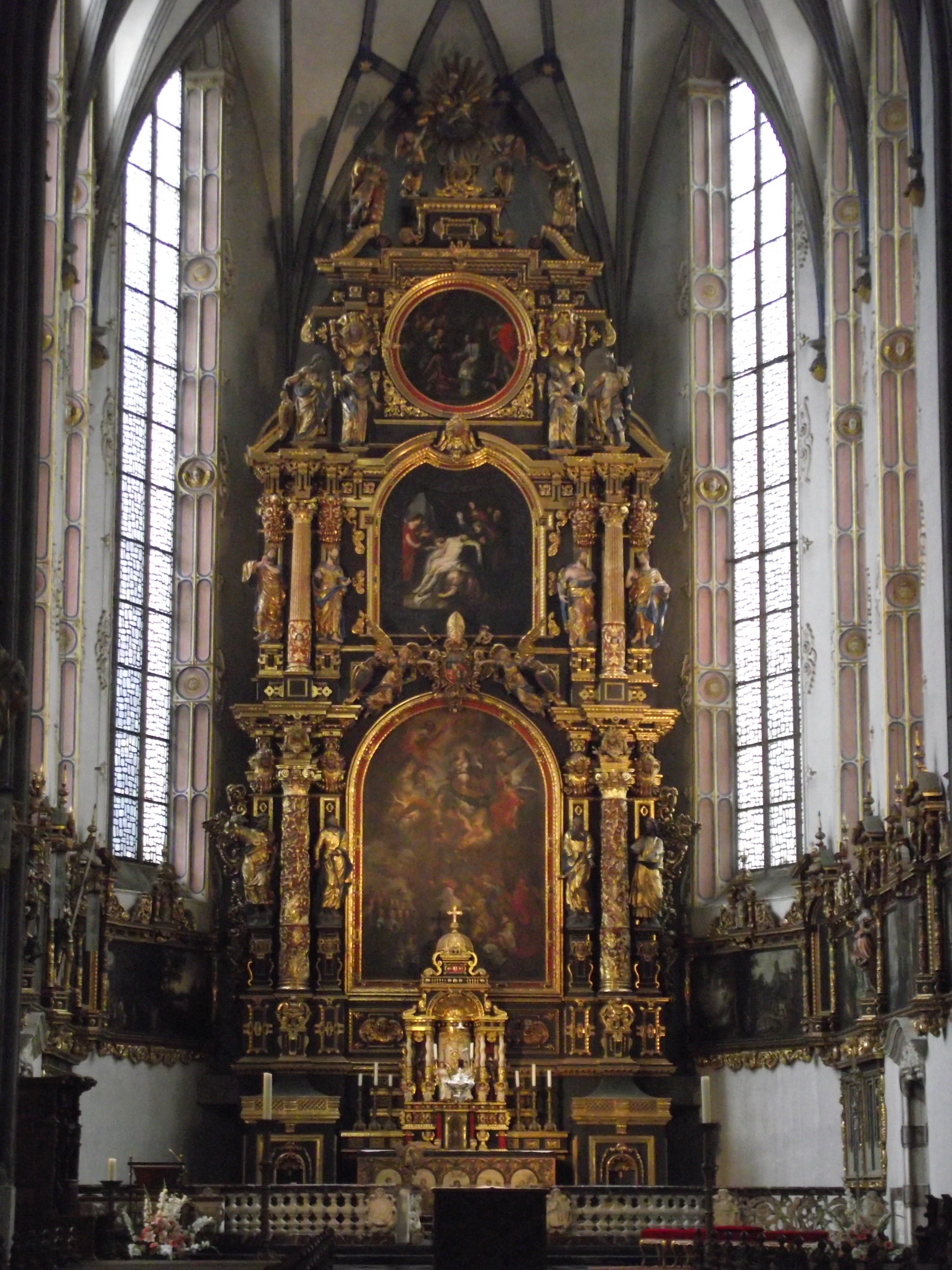 Cologne, St. Mariä Himmelfahrt, High altar, 1628.